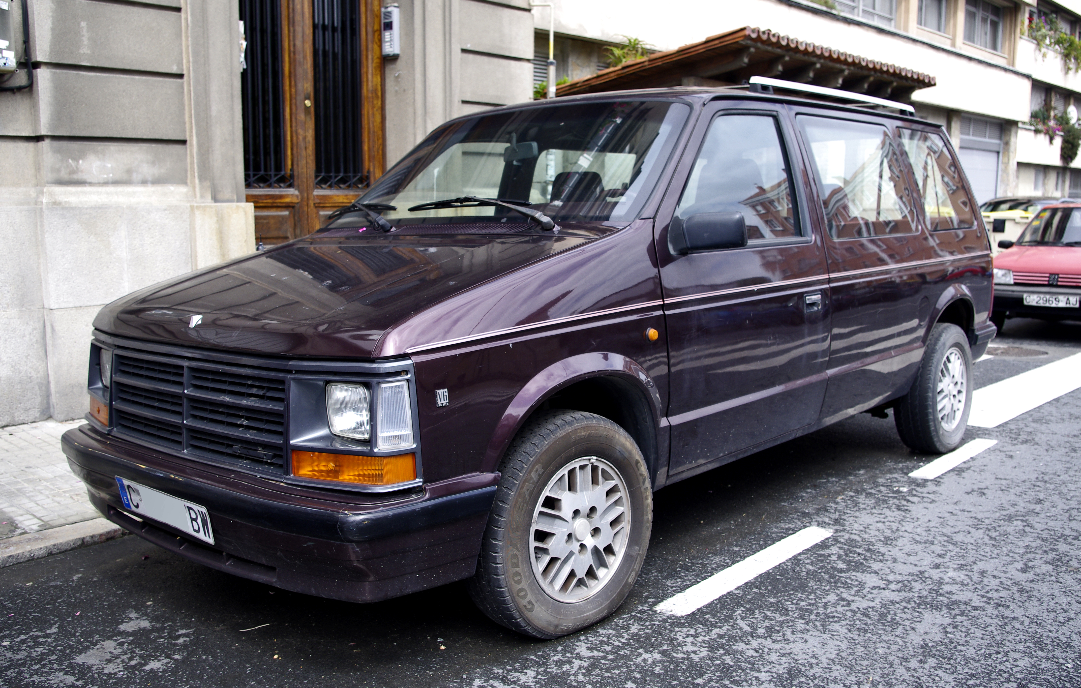 Soooo nice, very rare sights in here.